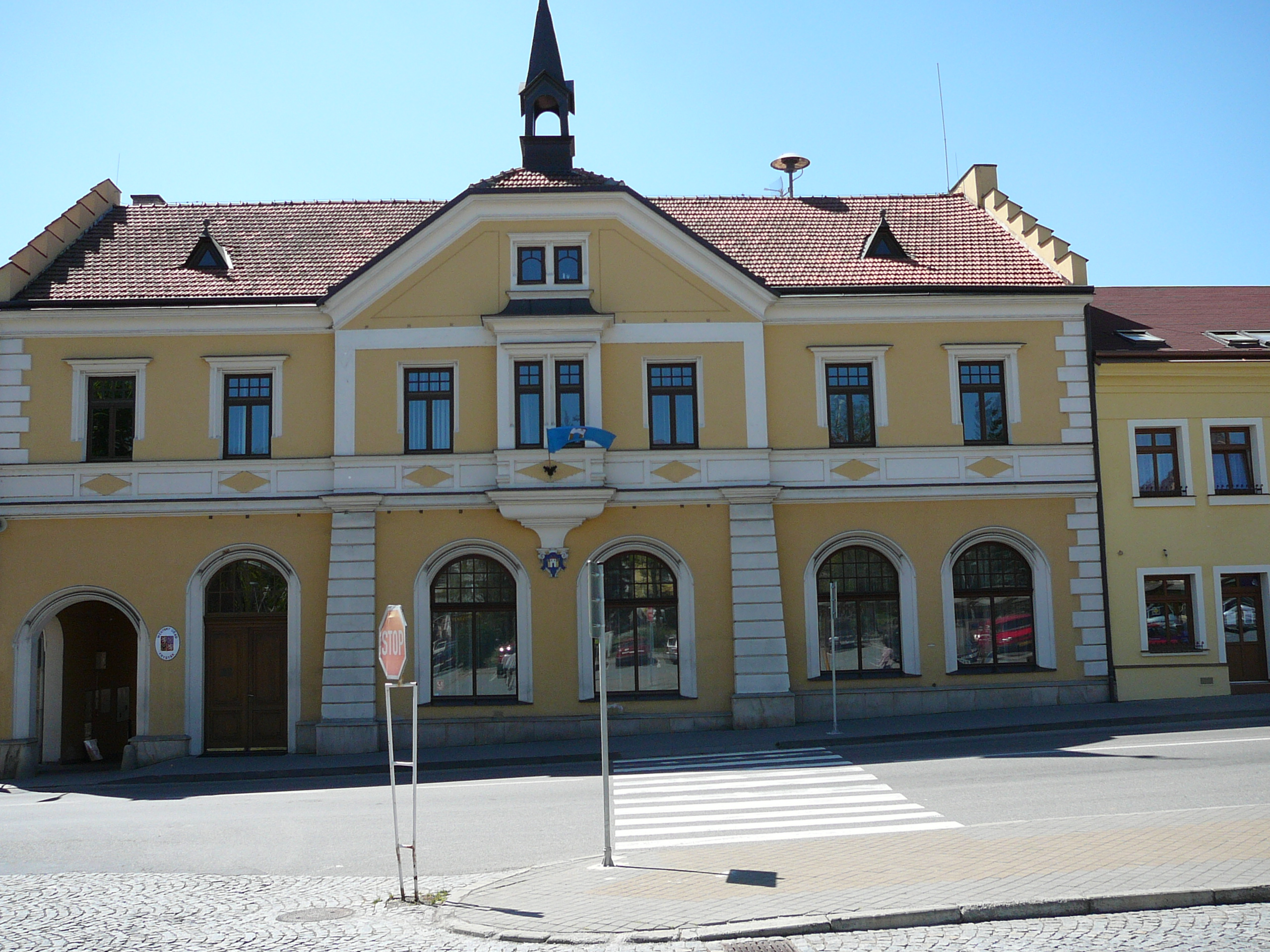 Town hall of Fryšták - ahead